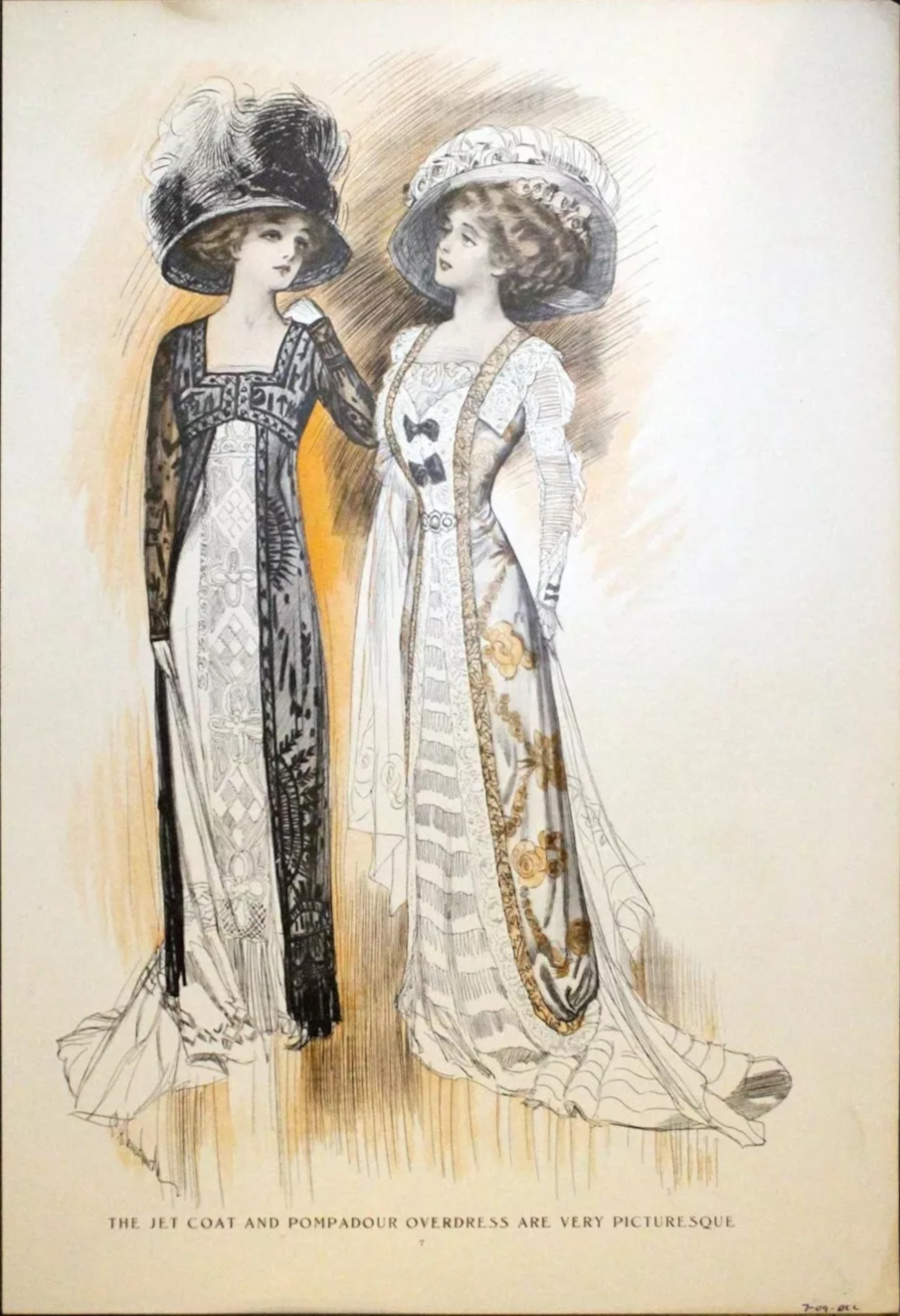 Fashion plate of evening gowns with hats